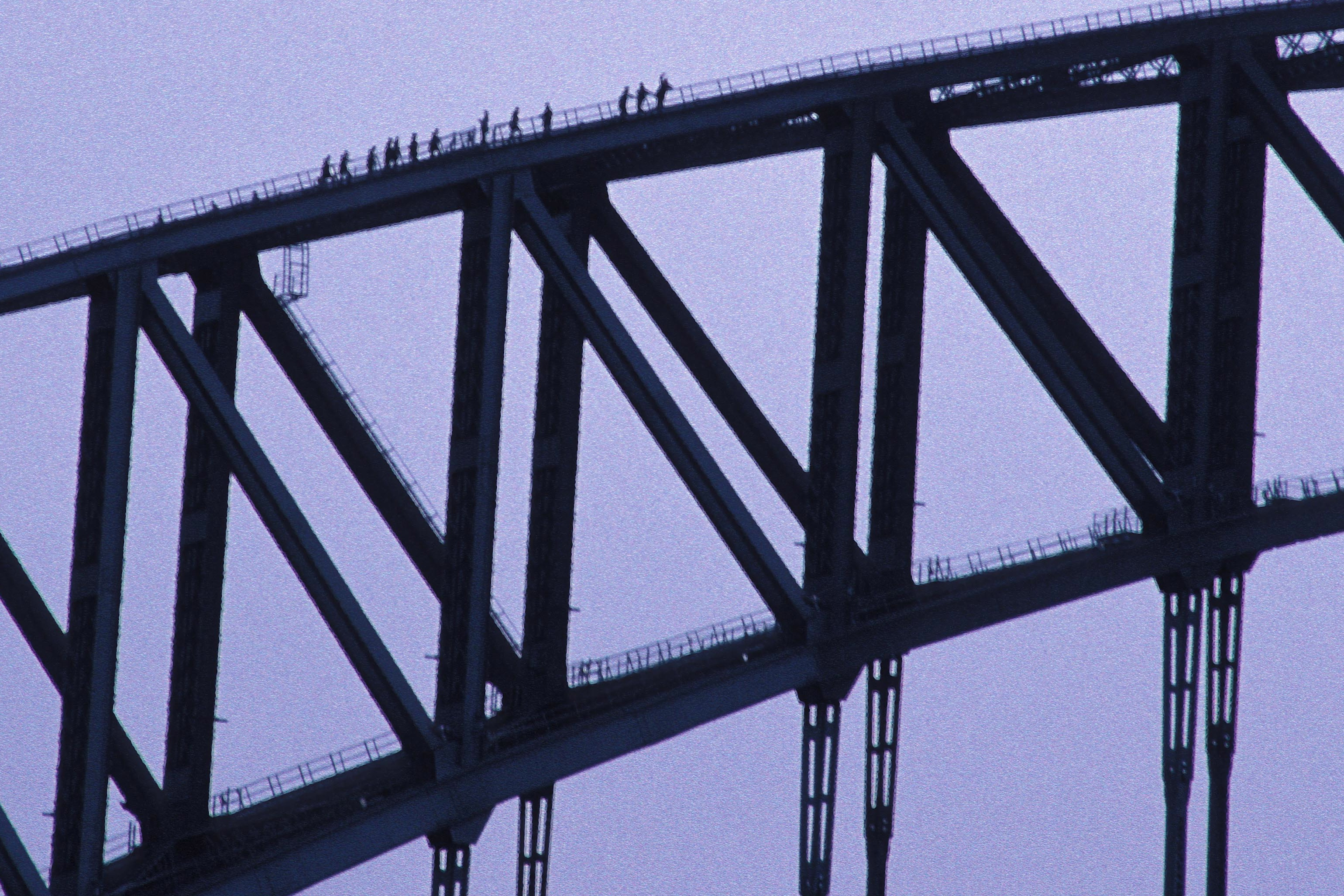 Cropped from File:SYDNEY HARBOR BRIDGE.jpg by User:KLOTZ